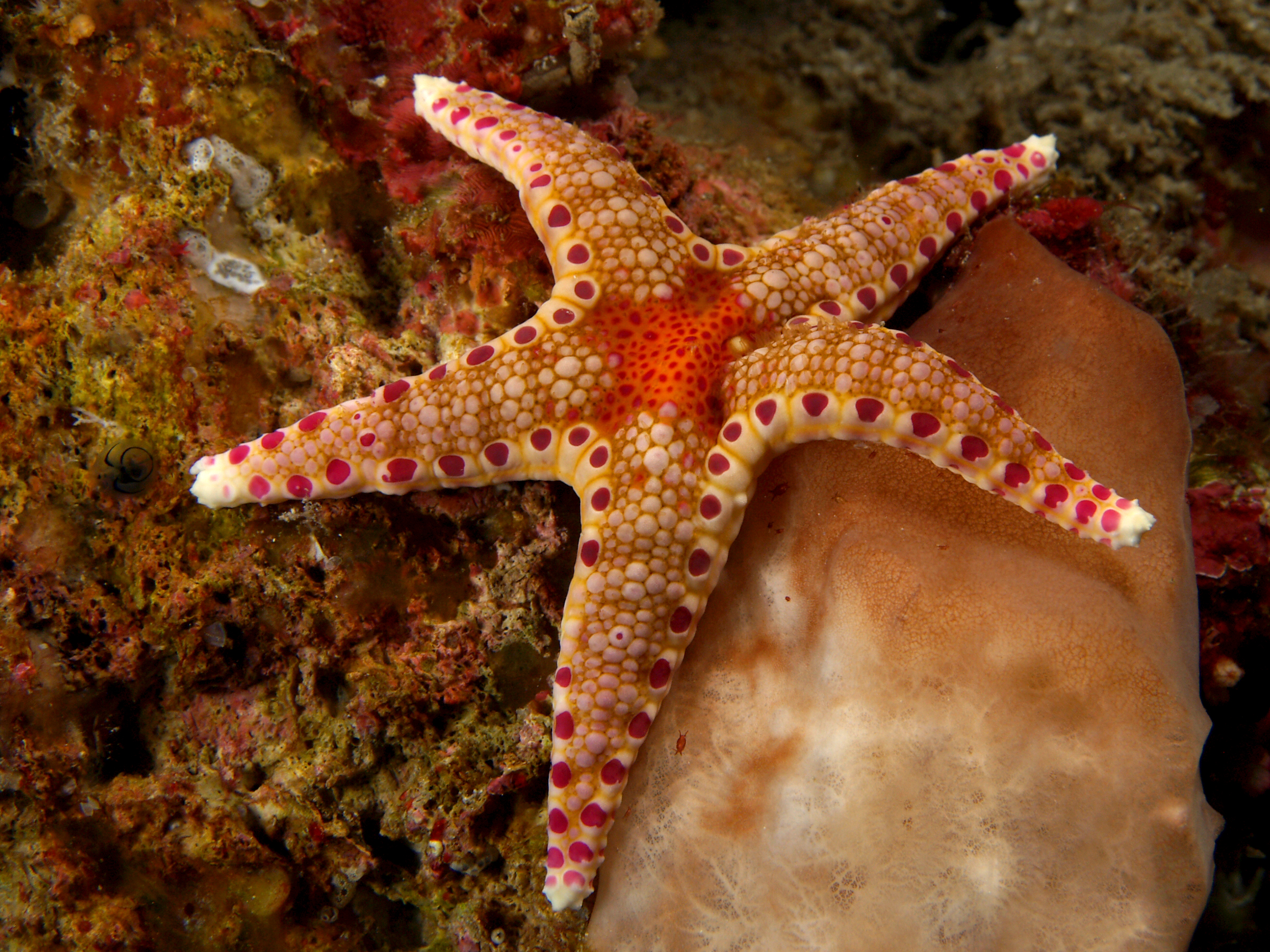 Neoferdina insolita starfish